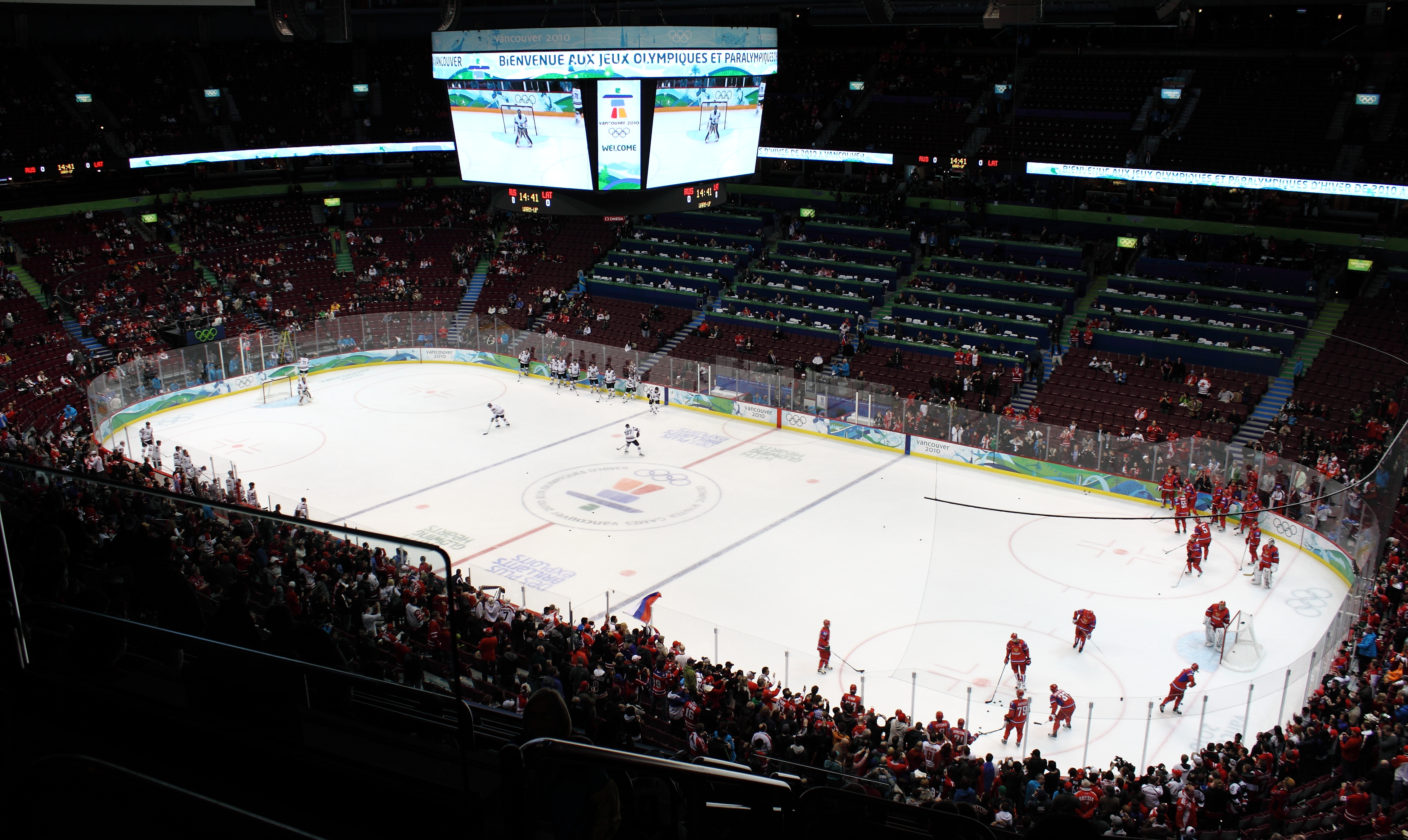 Russia vs Latvia. 2010 Vancouver Olympic Games.